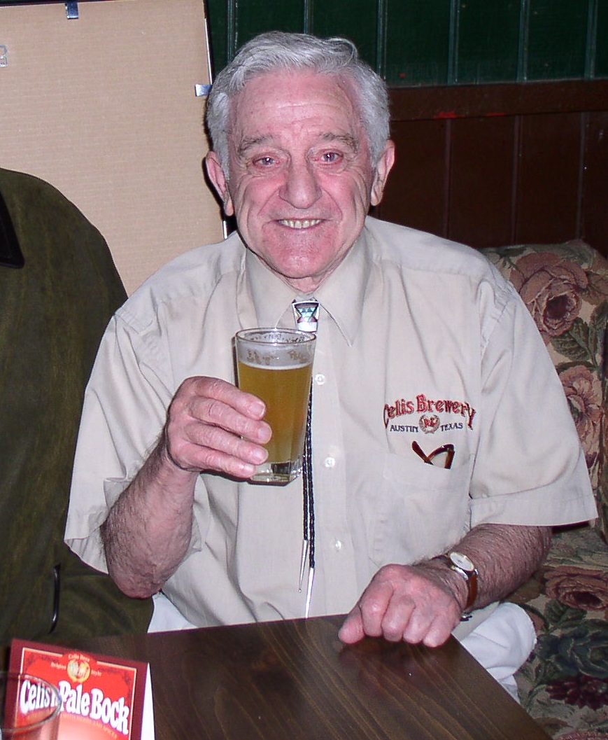 Pierre Celis at Dog and Duck Pub in Austin, TX